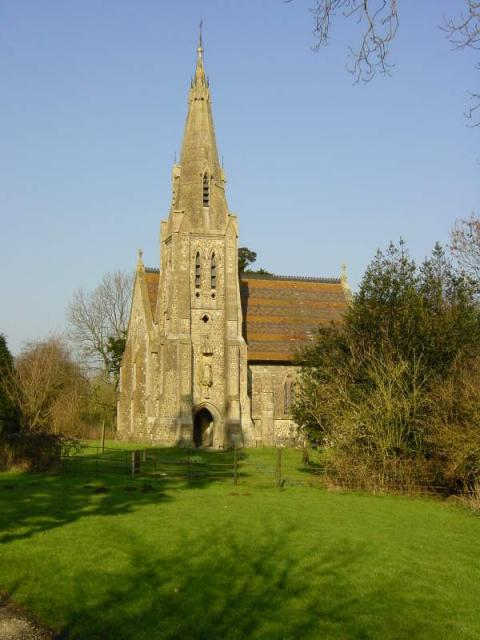 St Catherine's church, Kingsdown, near Lynsted, Kent